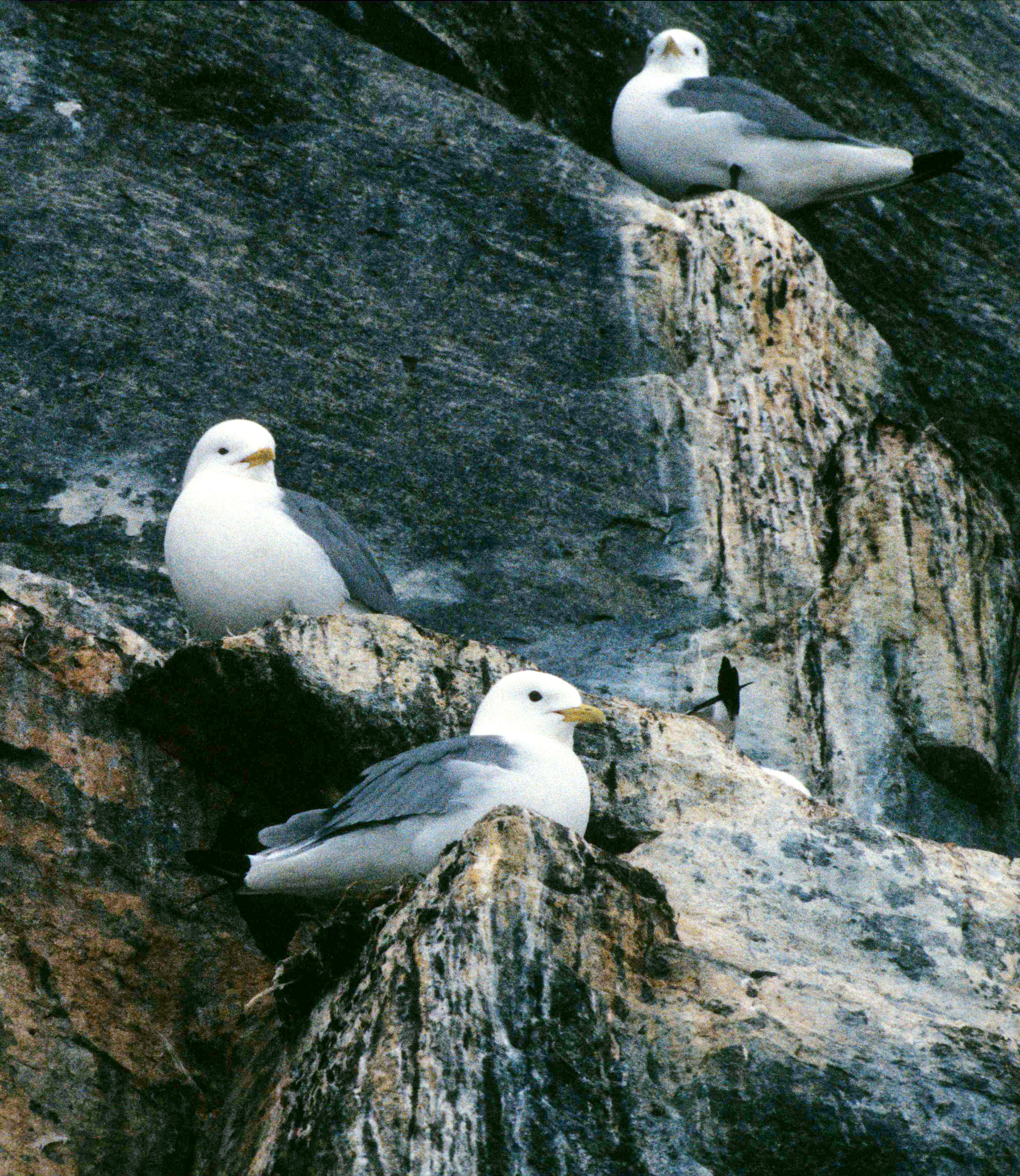 Kittiwakes Rissa tridactyla on the cliffs of Cape Graham Moore (south-eastern tip of Bylot Island at Baffin Bay, Sirmilik National Park, Canada)